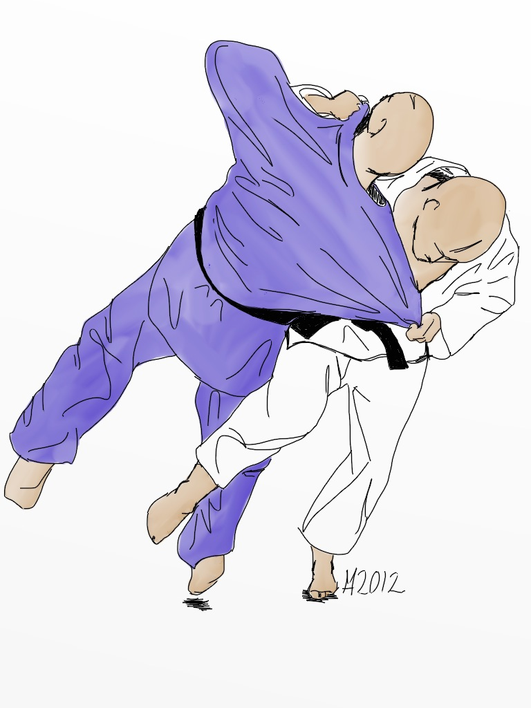 Illustration of the judo throw o-soto-gari, or major outer reap, where you break the opponents balance to the side and sweep the supporting leg with the back of your leg to throw the opponent backwards.